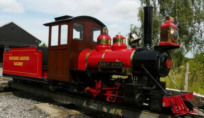 Sandy River